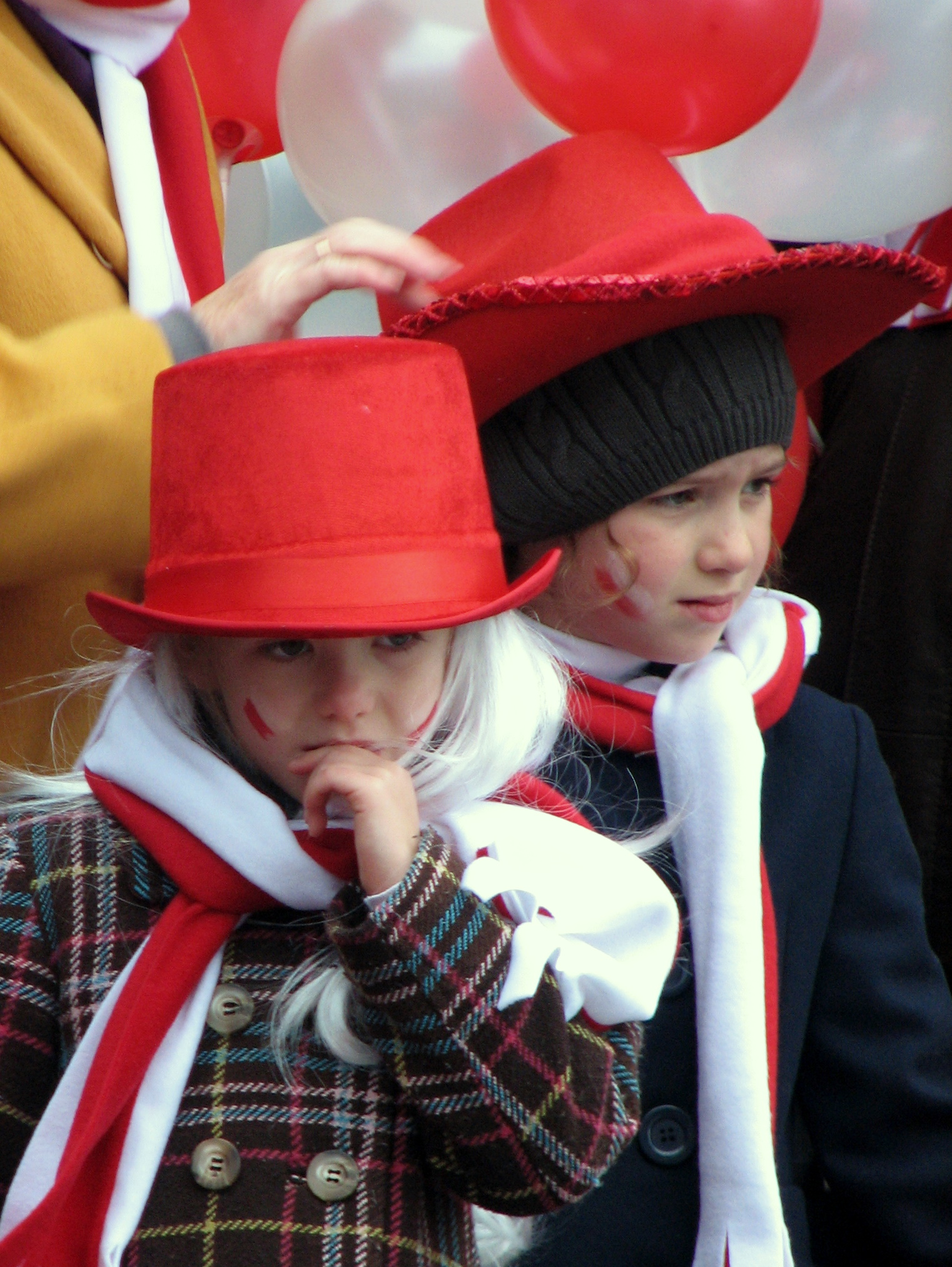 Preparation to Parade of Independence in Gdańsk during Independence Day 2010. As usual at the Independence Day parade, participants wore patriotic or military-like costumes or drove special vehicles or decorated cars, all in remembrance of Poland’s painful and repeated defense of its independence.